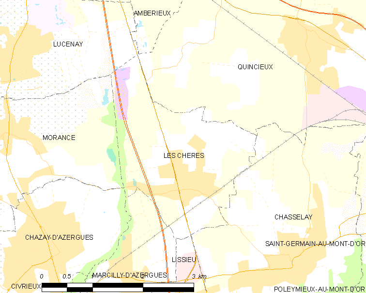 Map of French municipality